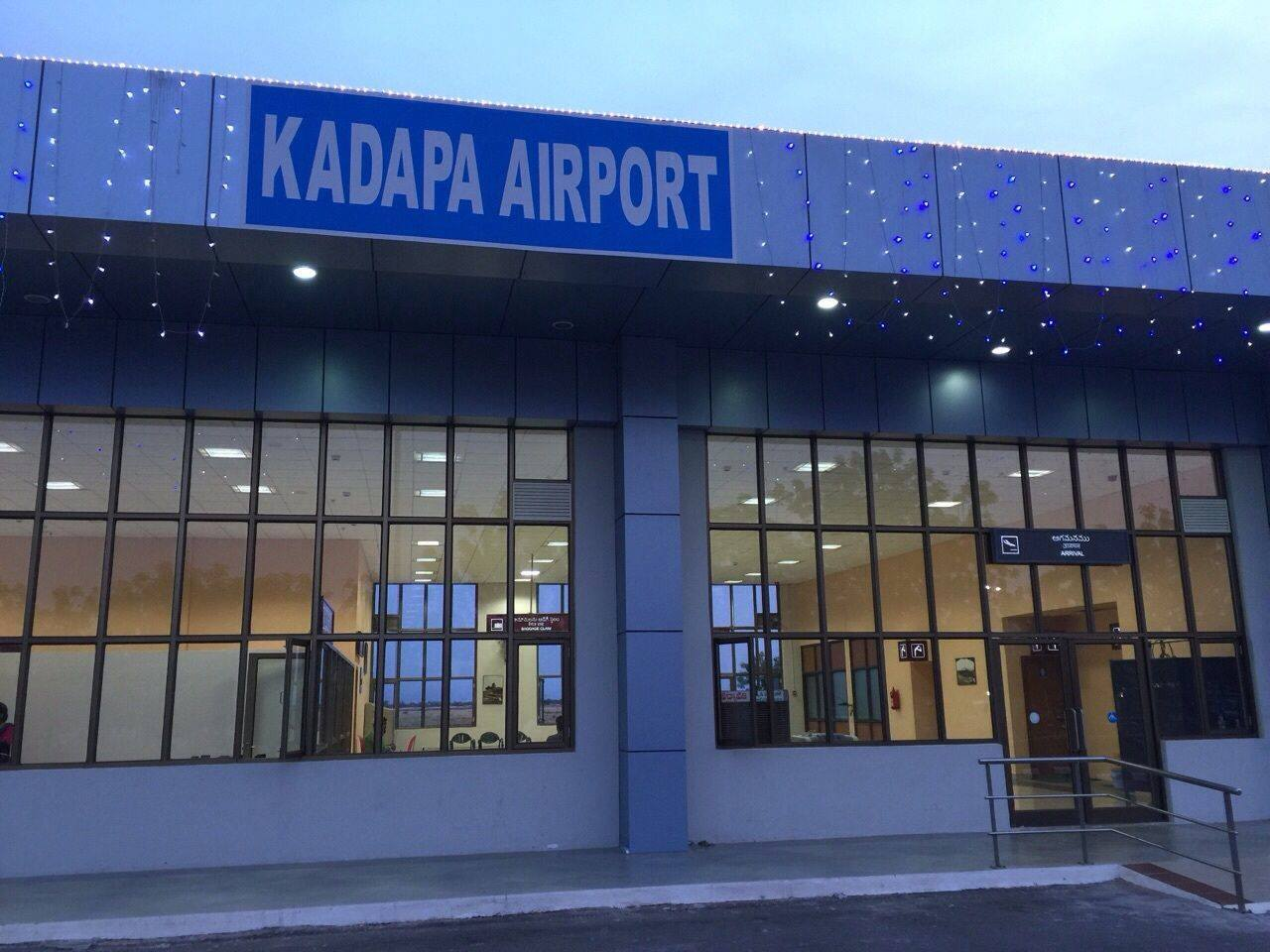 Kadapa Airport terminal building Other information This is a new terminal building